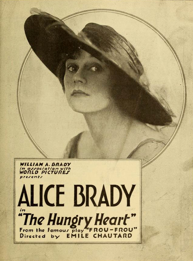 Advertisement in Moving Picture World with Alice Brady in the American film A Hungry Heart (1917) (listed as The Hungry Heart, which is a different 1917 film).